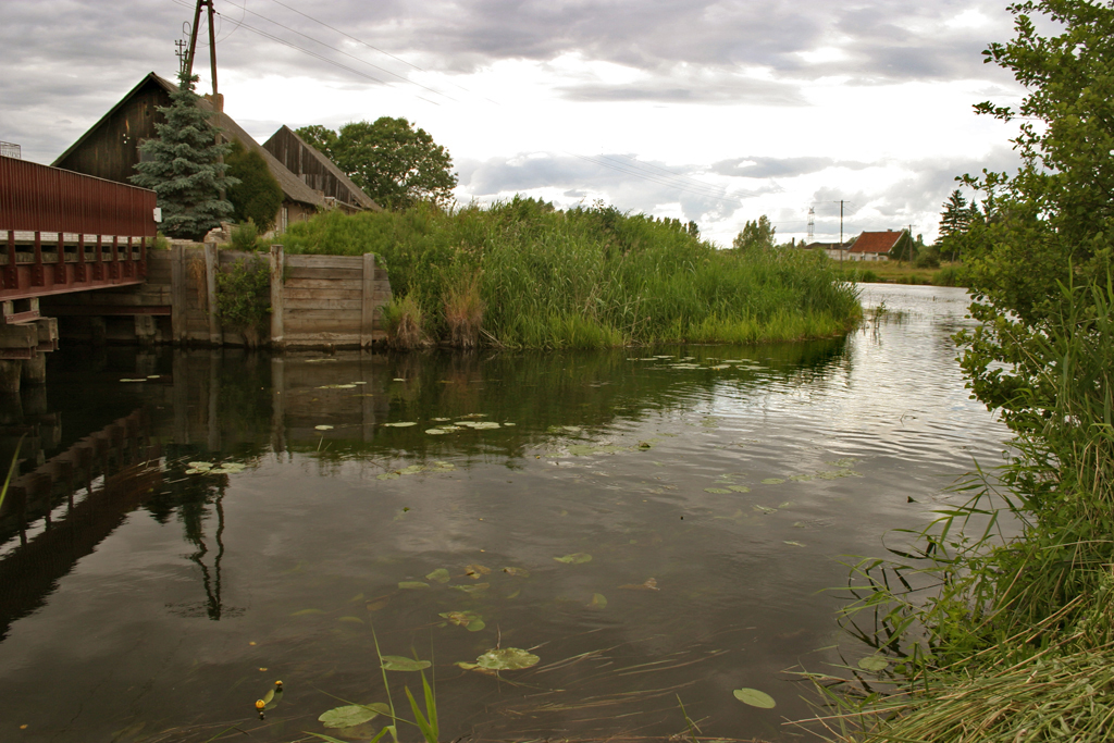 Estuary river to Motława.